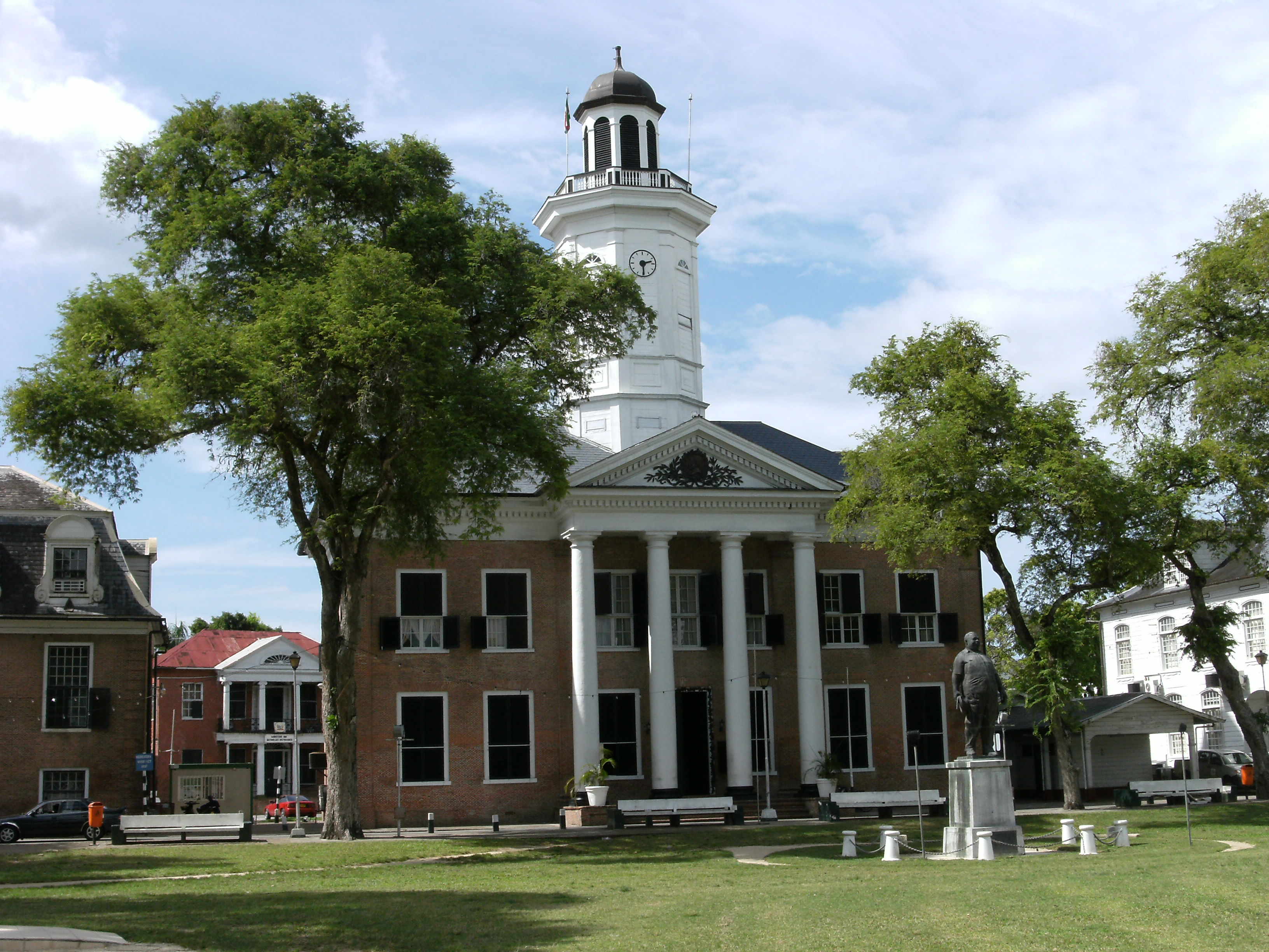 Ministry of Finances and Court of Justice, Paramaribo.